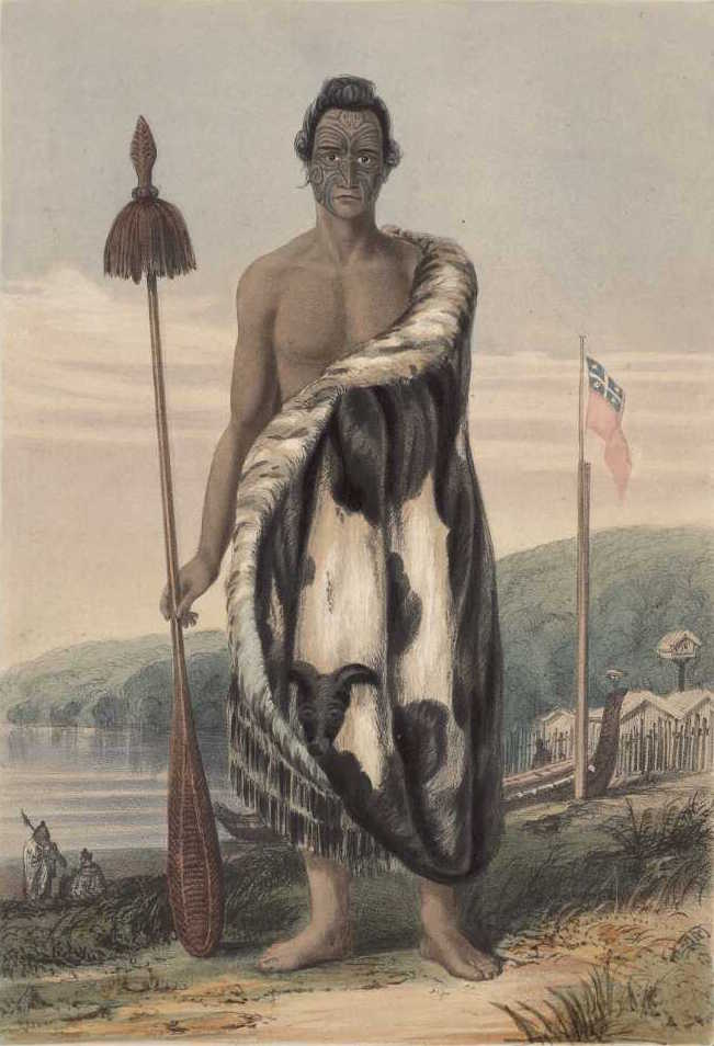 Honiana Te Puni-kokopu, d 1870. Shows Honiana Te Puni-kokopu standing, with full facial tattoo, clad in a dogskin cloak and holding a taiaha in his right hand. Behind him is Wellington Harbour with two Maori by the shore to the left, and Petone Pa, a canoe and a flagpole with the New Zealand Company flag on the right. The western Hutt hills are in the background. Accompanying text reads: These two chiefs sold the site of the present Wellington Settlement to Colonel Wakefield, the Principal Agent of the New Zealand Company, in September 1839... Epuni is the uncle of Warepori. Under the same unfavourable circumstances as his nephew, he has nobly deserved the name of "a true gentleman." He still lives at the village of Pitone, loved and respected by the English inhabitants of all ranks. These portraits were drawn at the time of the purchase in 1839... the village of Pitone and the flag-staff at the foot of which Colonel Wakefield took formal possession, appear in the back-ground.